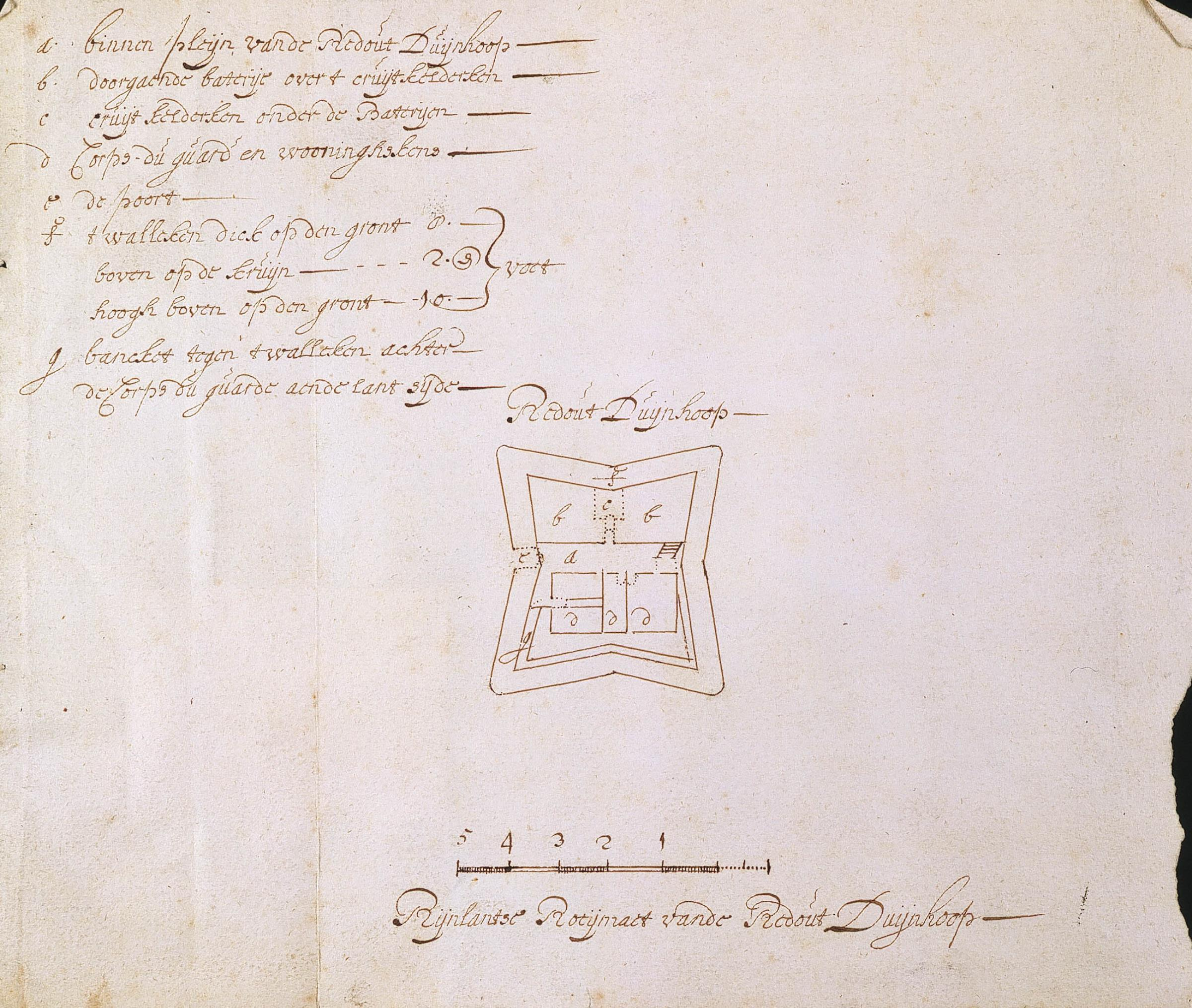 According to the catalogue Leupe (NA), the original title reads: Plan van de redout Duynhoop. Notes on reverse: 654 van de Kaap II deel n. 204; 498e. Key: a-g